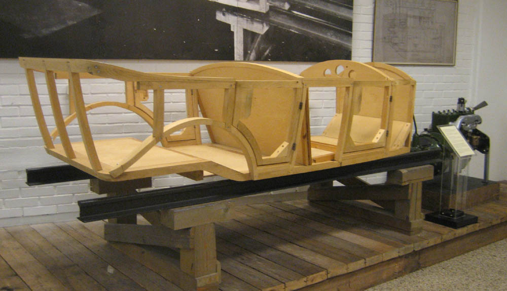 Replica Wooden body frame for the Volvo ÖV4. Photo taken in the Volvo museum.